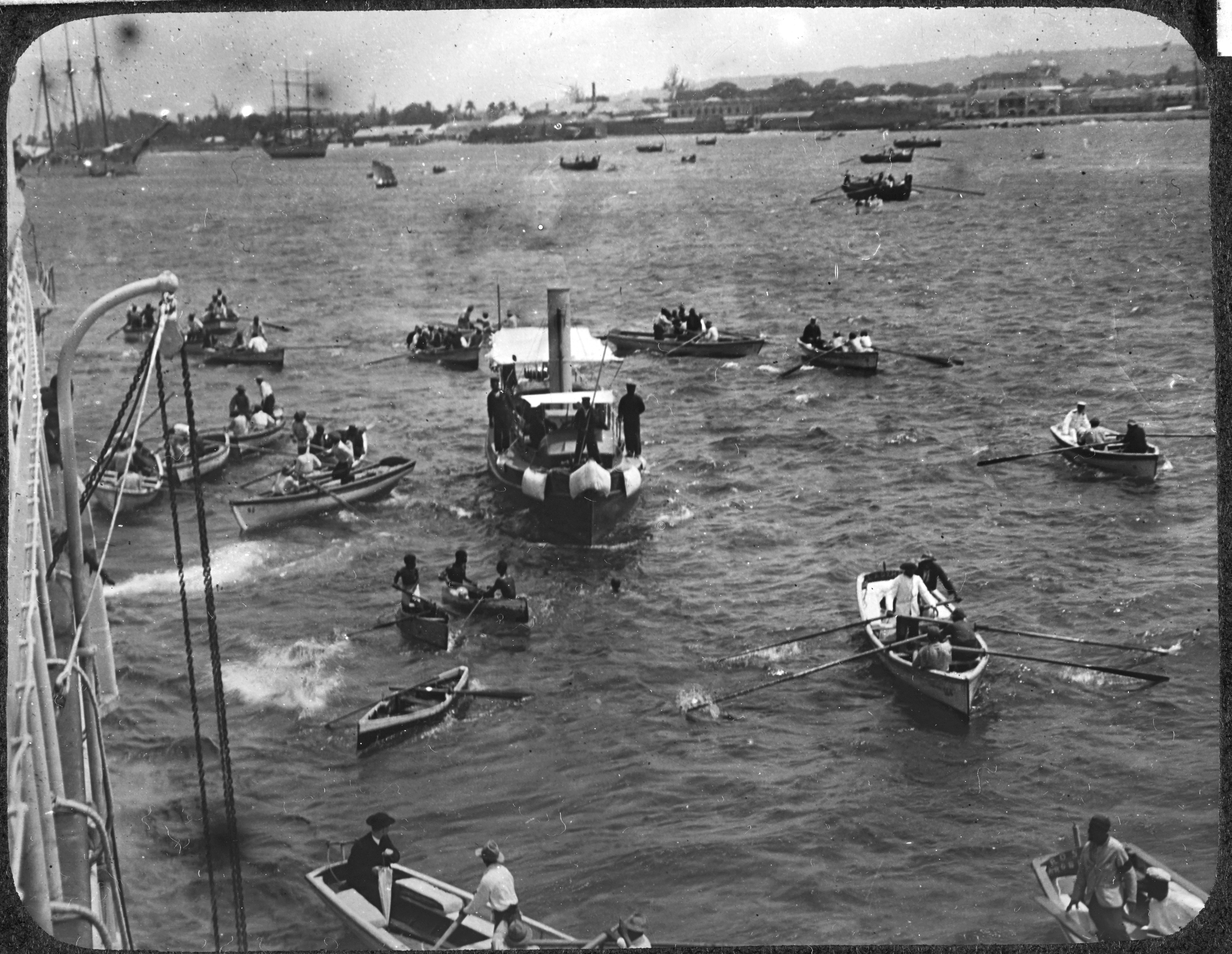 Harbour scene; steam launch surrounded by several rowing boats. Waterfront and two large sailing ships in the background. Many people in boats.